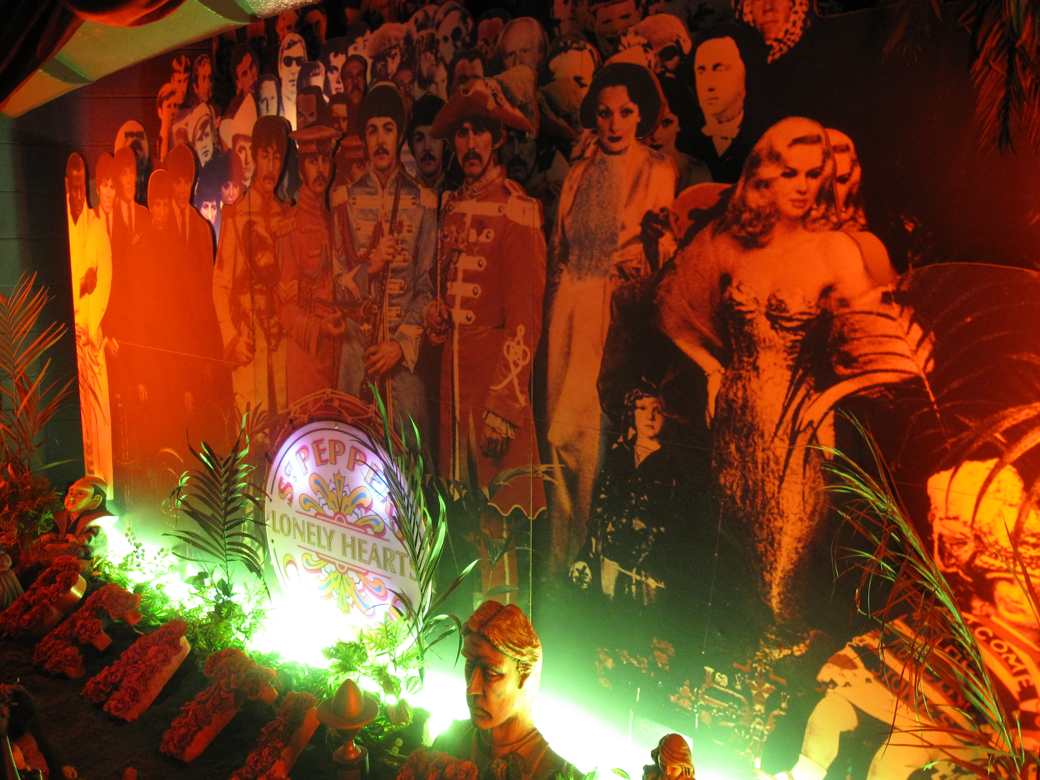 Backdrop from the Sgt. Pepper's Lonely Hearts Club Band album cover. Taken in the Beatles Museum in Liverpool UK..